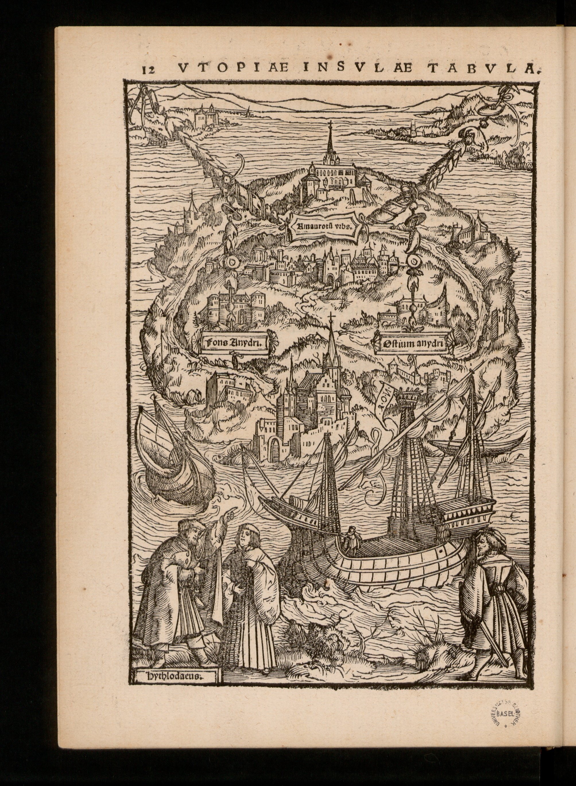 This is the woodcut of Utopia's map as it appears in Thomas More's Utopia printed by Johan Froben in march 1518. (We can tell by the title of the map : "VTOPIAE INSVLAE TABVLA", which title is not there in 1518 november edition)